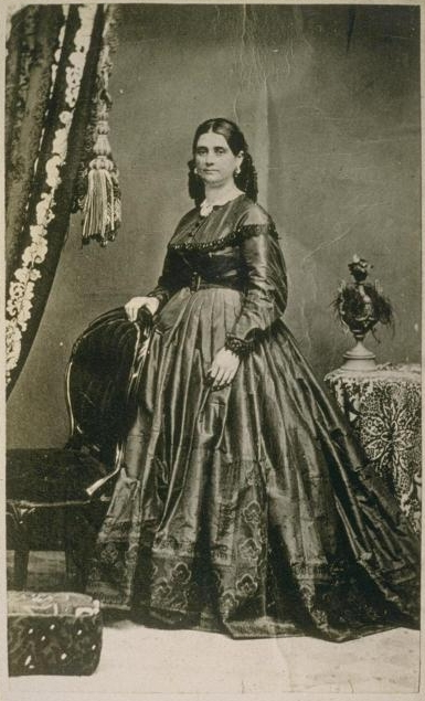 1867 photograph of Josefa Bandini de Carrillo, wife of Pedro C. Carrillo, both residents of California